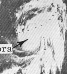 This Nimbus II weather satellite picture of Typhoon Cora was taken on September 1, 1966 at 1502 UTC